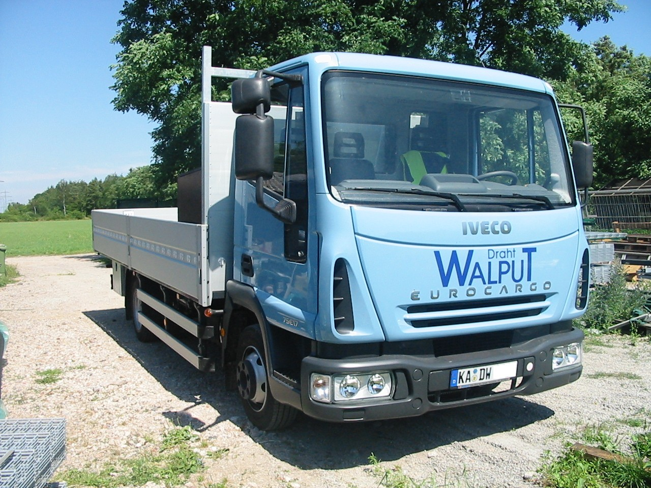 New Iveco Eurocargo